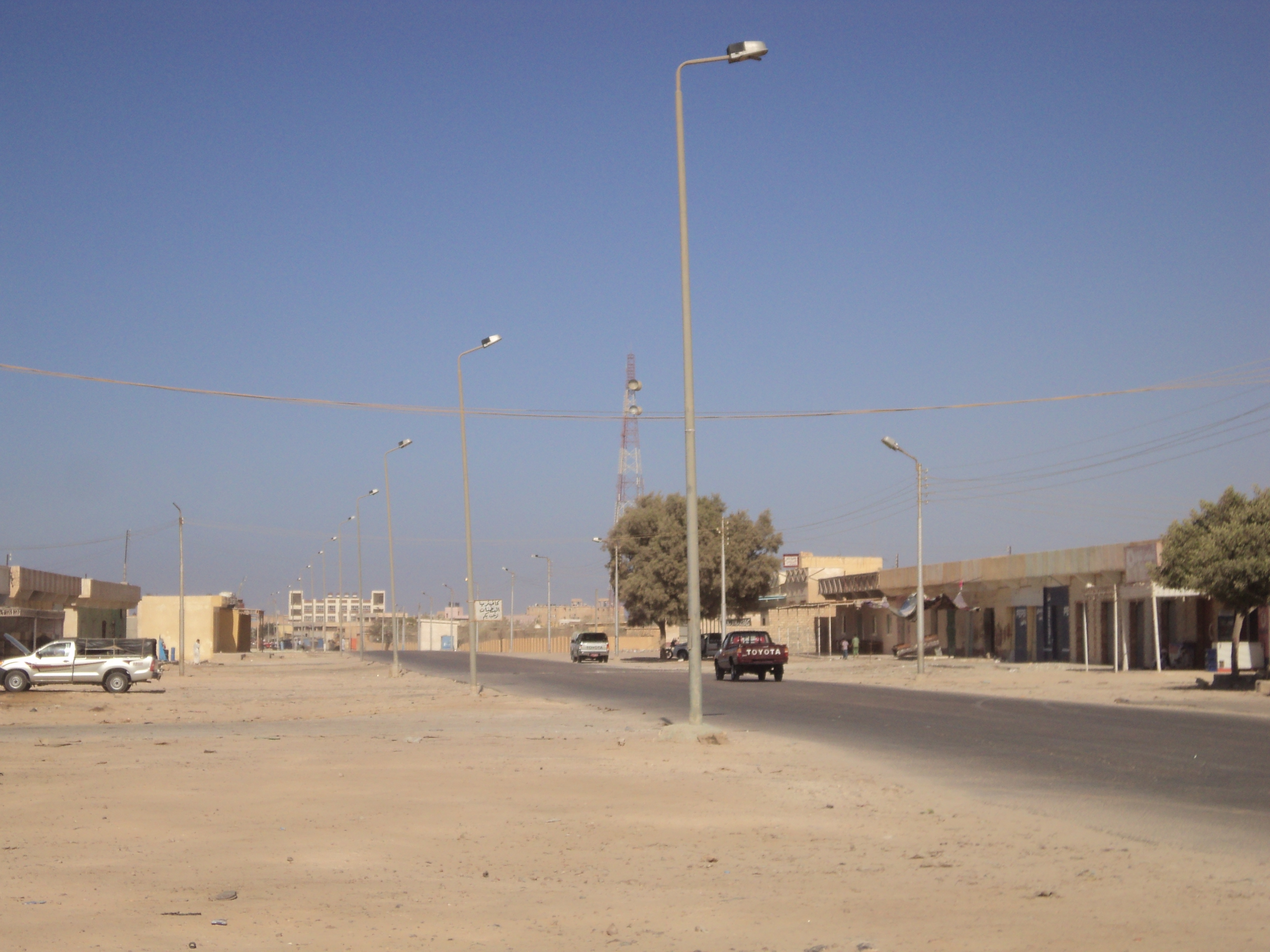 The Egyptian village of Sidi Barrani.